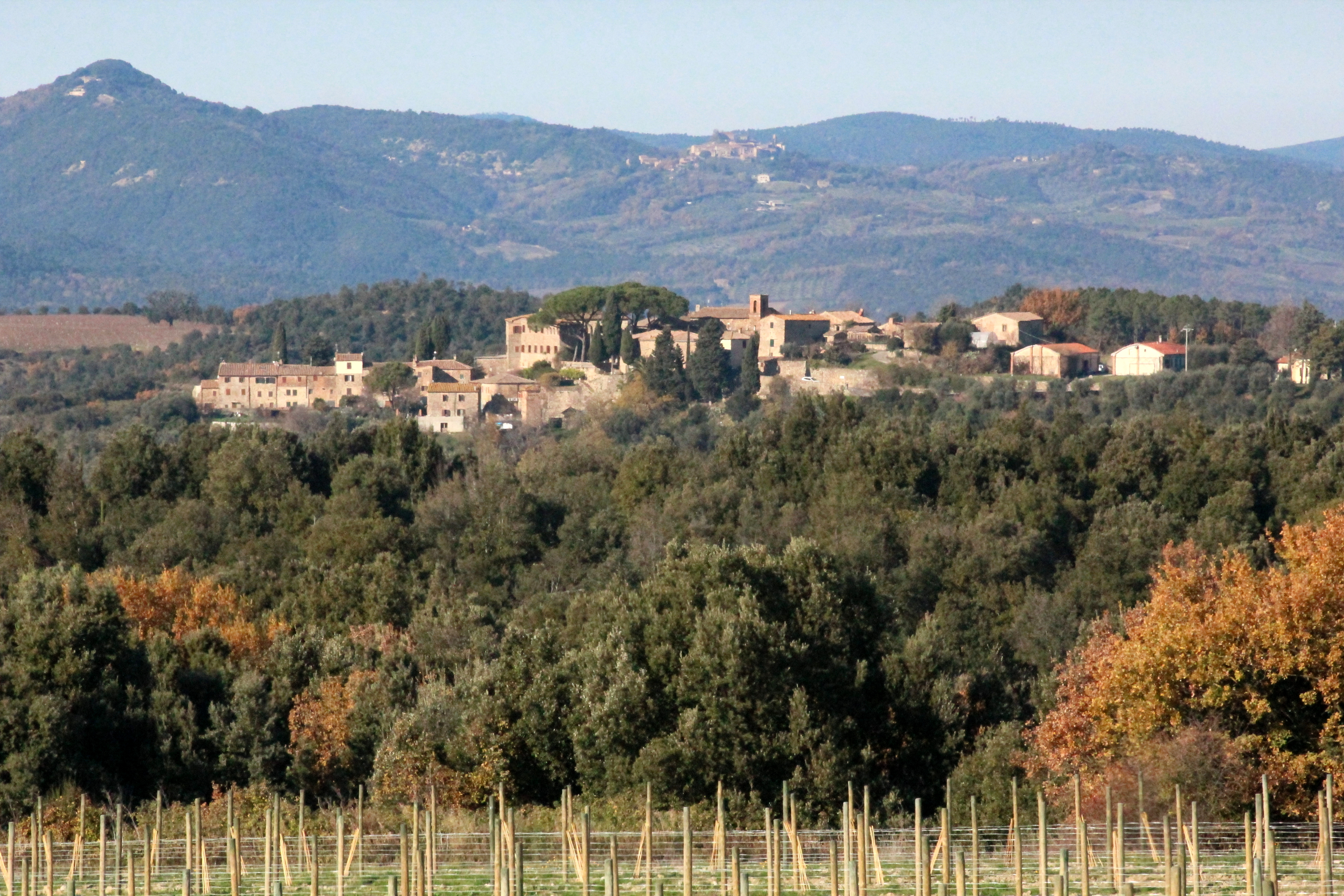 Panorama of Camigliano, hamlet of Montalcino, Province of Siena, Tuscany, Italy